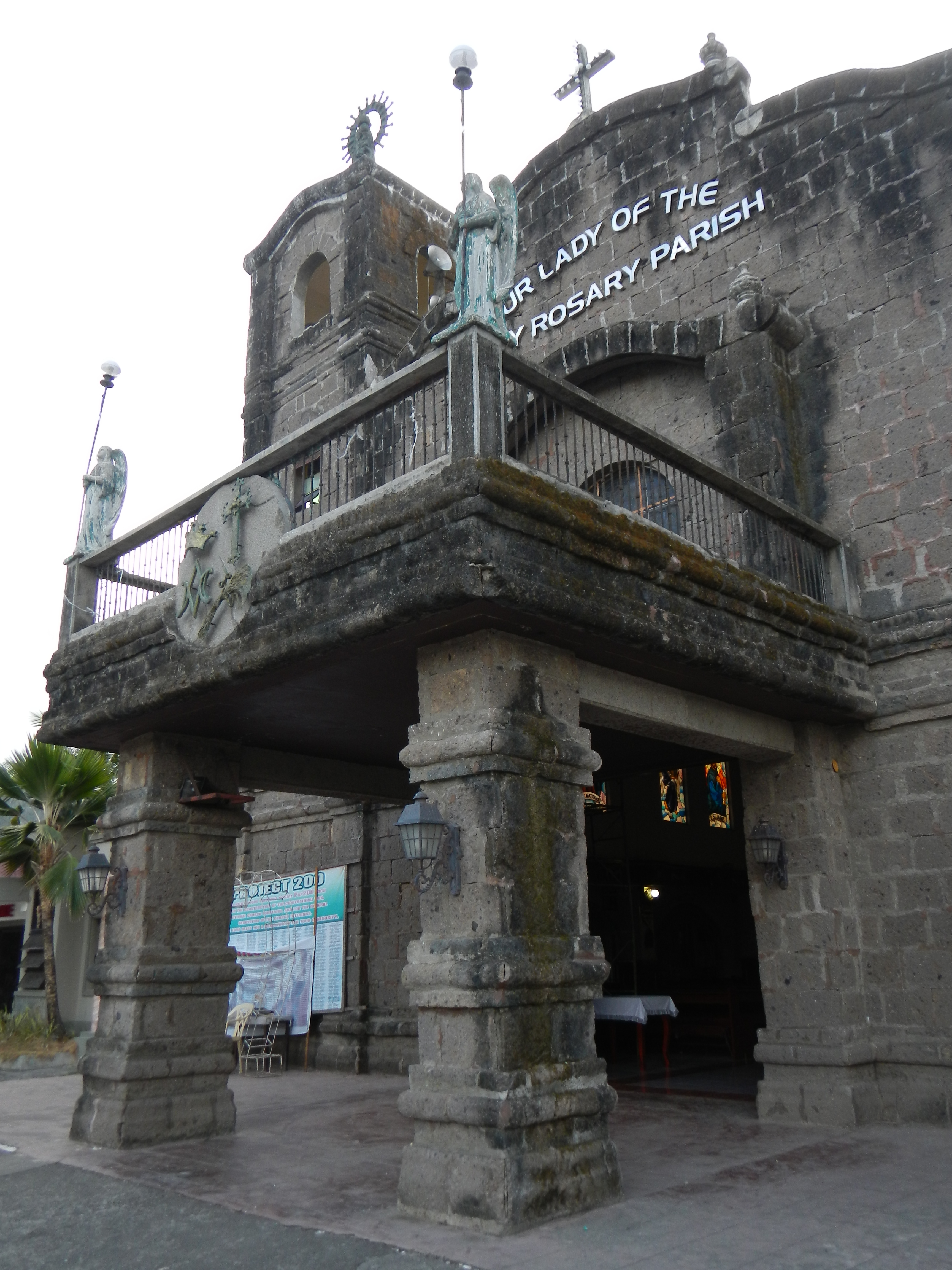 1964 Our Lady of the Holy Rosary Parish Church of Licab, 3112 Nueva Ecija [1]Roman Catholic Diocese of San Jose in the Philippines[2] Current Parish Priest: Fr. Pedro Albino Jr. Titular: Our Lady of the Holy Rosary Vicariate of St. Dominic Forme Parish Priest: Father Romeo Nietes Year of Establishment: 1964 Dialects: Tagalog, Ilocano Population: 34,000 Catholics: 0.98% Vicar Forane: Fr. Bonifacio P. Flores[3][4][5]Mayo 29, 1969[6]In 1905, the town and the church made of nipa and bamboo were born in Licab at Kalye Real with San Cristobal o Apo Tubal as patron. The church was burned in 1964, hence a new one was erected on Mayo 29, 1969. On Octobr 2005, a Papal Decree was issued proclaiming "Mahal na Birhen ng Santo Rosaryo" or Our Lady of the Holy Rosary as its patroness under Cura parocco, Fr. Ruben Ortiz.[7] [8]Licab, Nueva Ecija